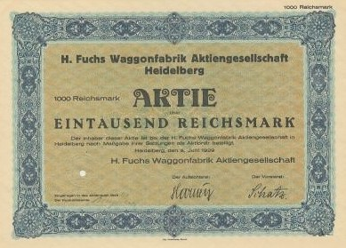 Share certificate of the German railway rolling stock (coach and wagon) builders, Waggonfabrik Fuchs, which was based in Heidelberg, Baden-Württemberg, Germany.